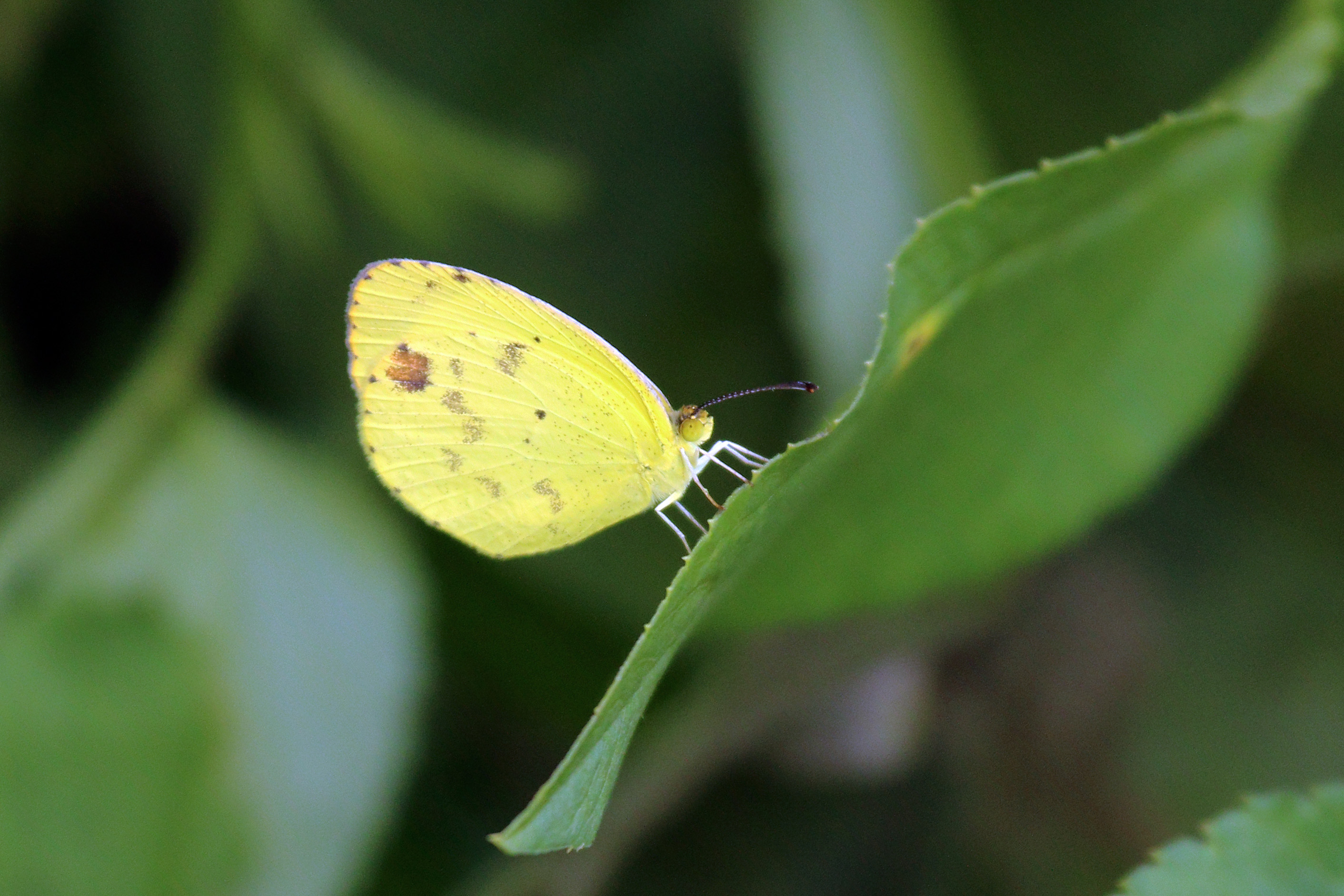 Little sulphur butterfly (Pyrisitia lisa euterpe) female in Jamaica